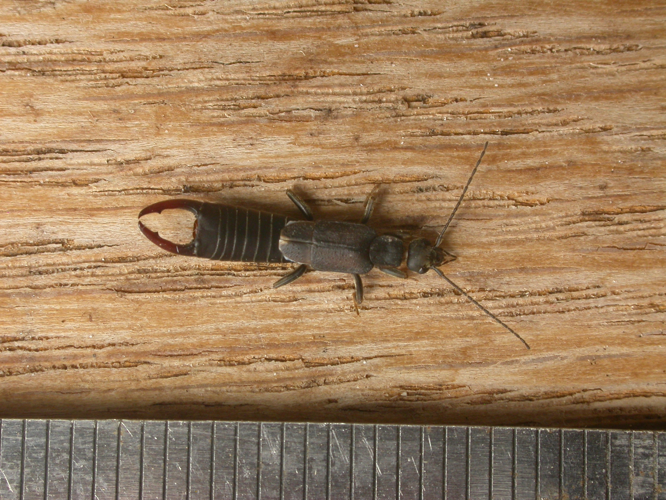 Nala lividipes (Dufour), to MV light, Aranda, ACT, 20/21 March 2010